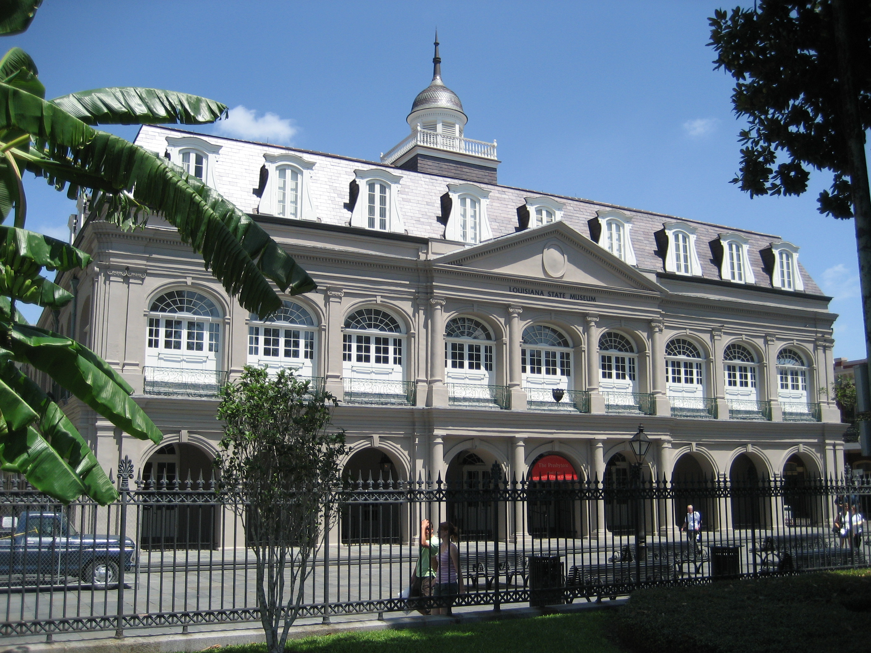 New Orleans: The Presbytere building seen from in Jackson Square